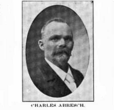 Charles Abresch (1850-1912), Born in Dierdorf, Germany, founded the Charles Abresch Wagon works in 1871 in Milwaukee. Picture 1910.